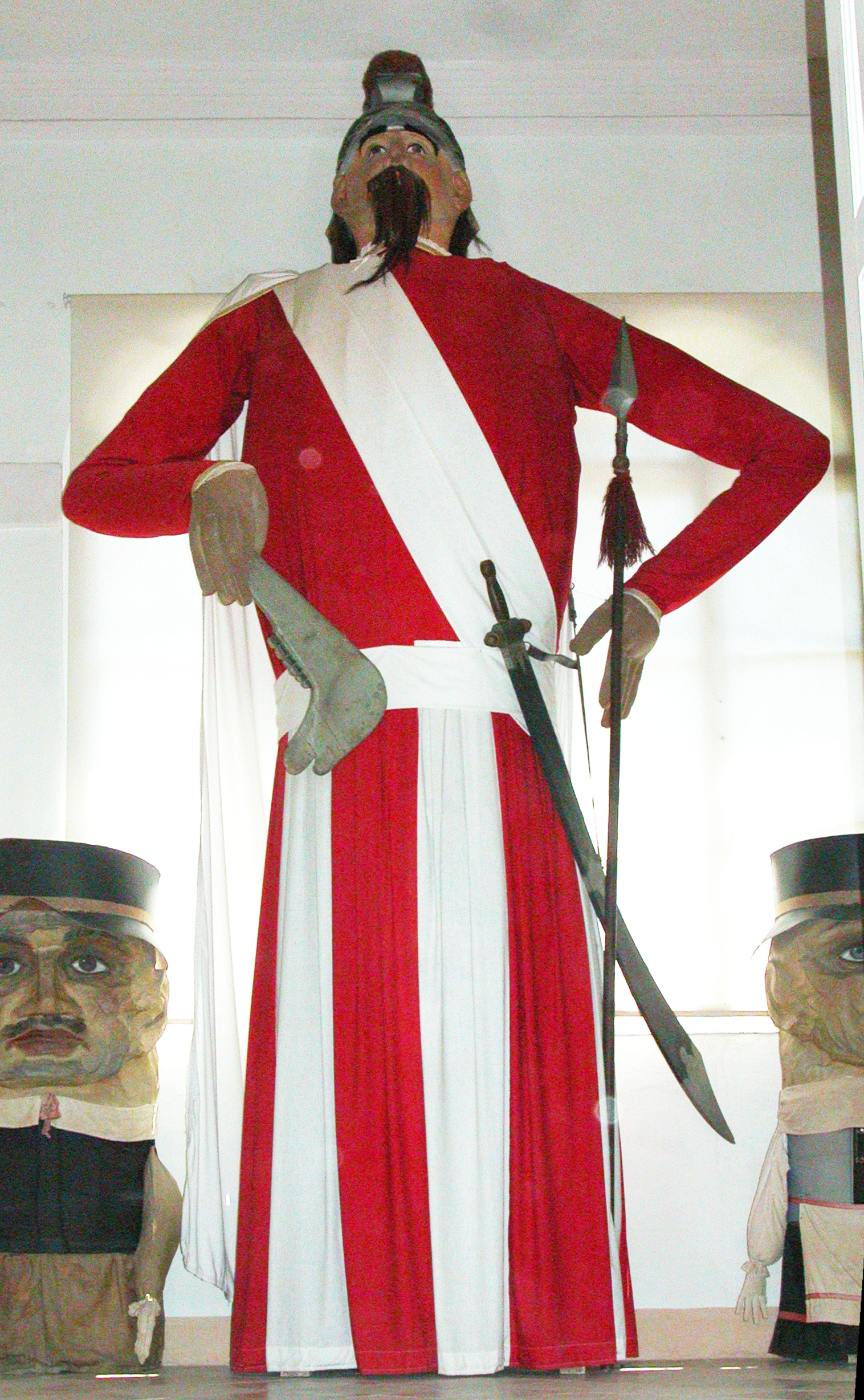 Samson figur from Mauterndorf, about 1980, Salzburg Museum ethnological departement, Austria